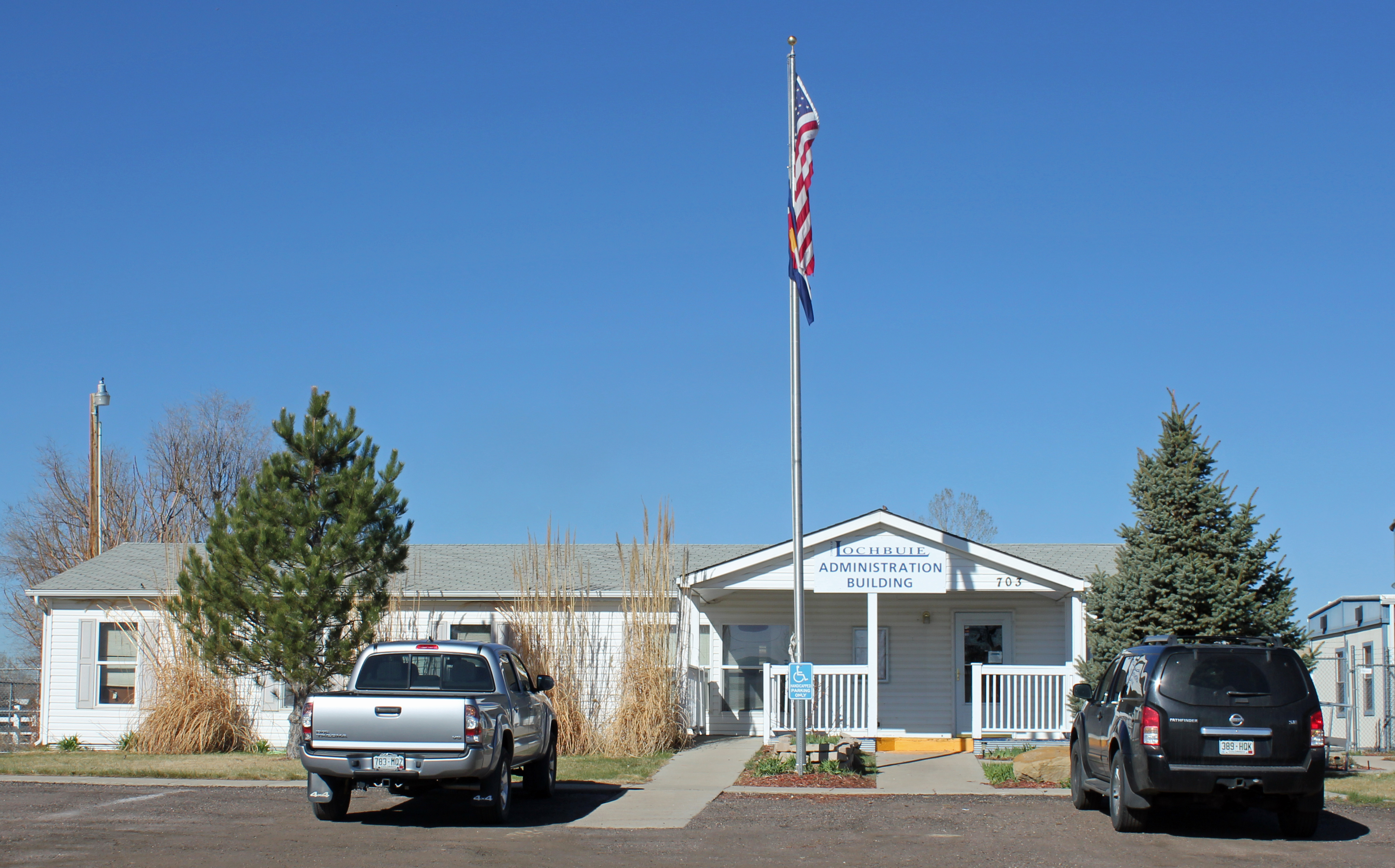 The Lochbuie, Colorado Administration Building (Lochbuie Administration Building), located at 703 Weld County Road 37 in Lochbuie, Colorado.